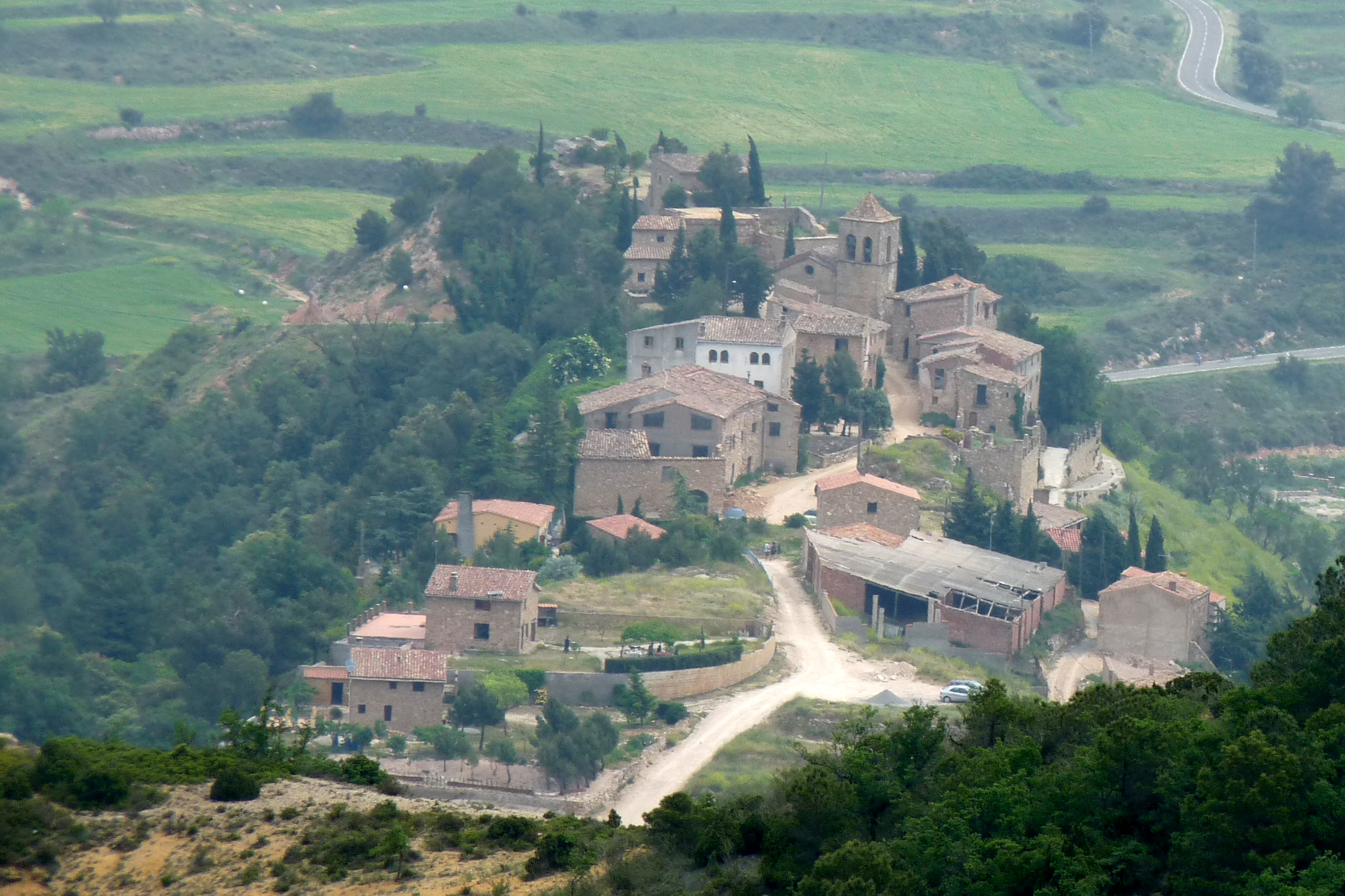 Albarca